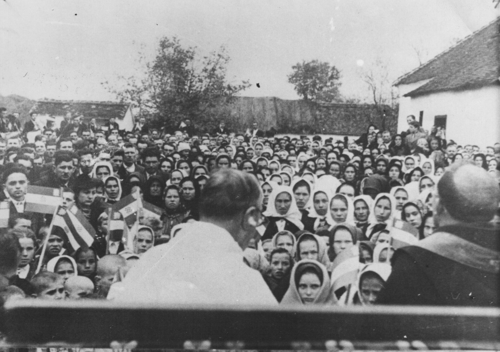 Sidonije Šolc rebaptizing Serb Orthodox people into Catholic Church in Bosanska Dubica in 1941